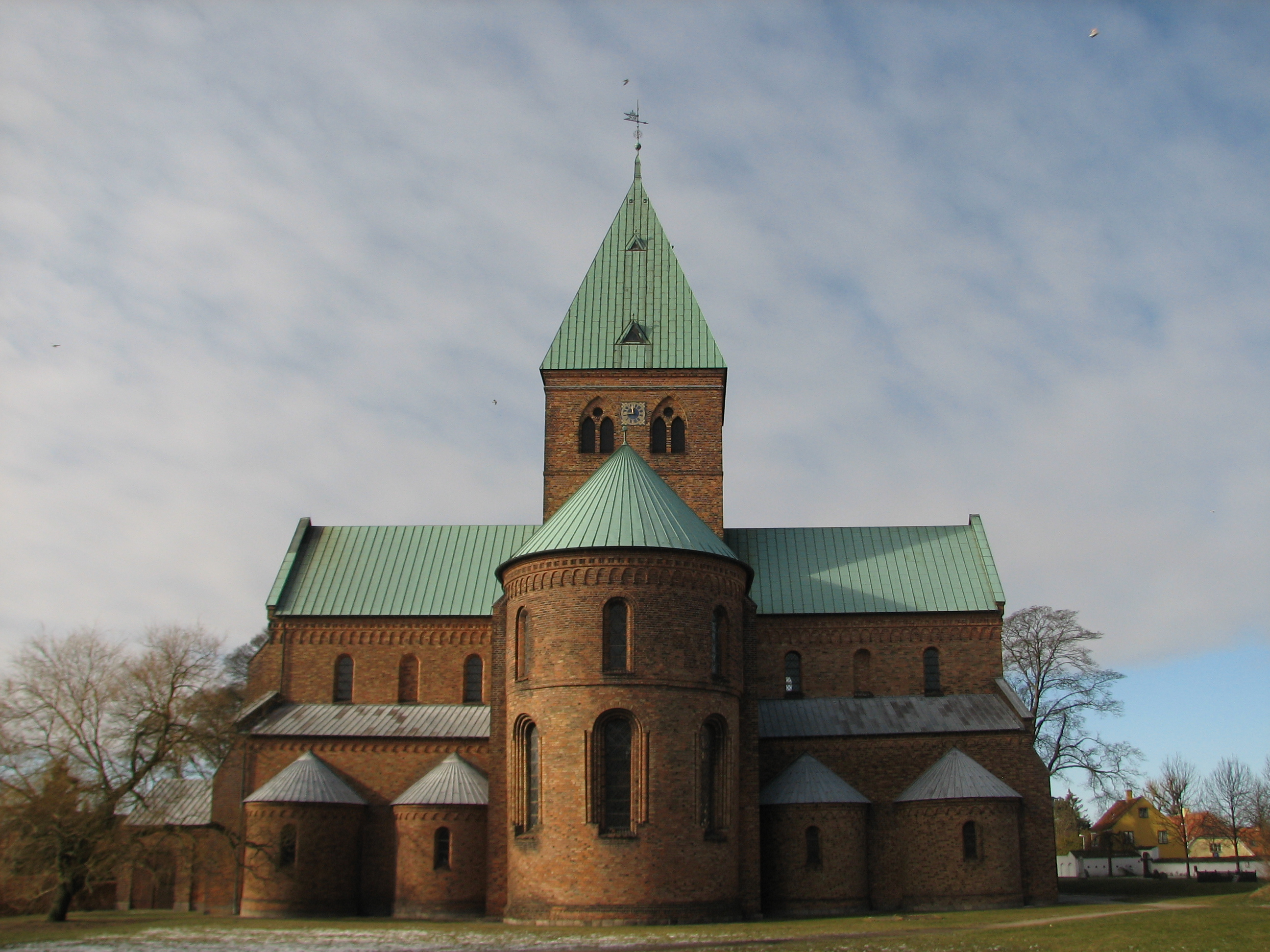 Sankt Bendts Kirke in RingstedNorsk bokmål: Sankt Bendts Kirke i Ringsted